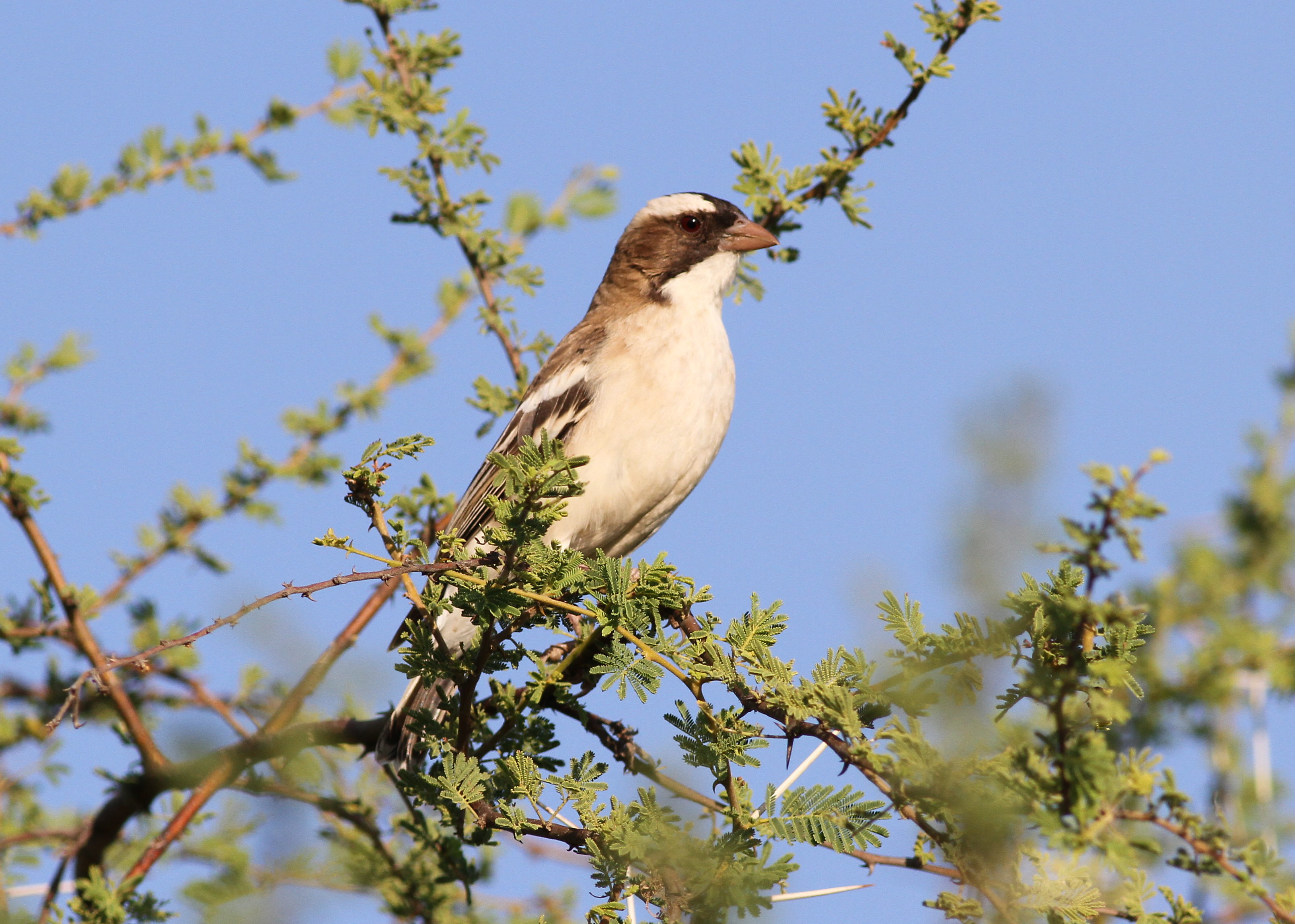 White-browed Sparrow-Weaver, Plocepasser mahali, at Mapungubwe National Park, Limpopo, South Africa